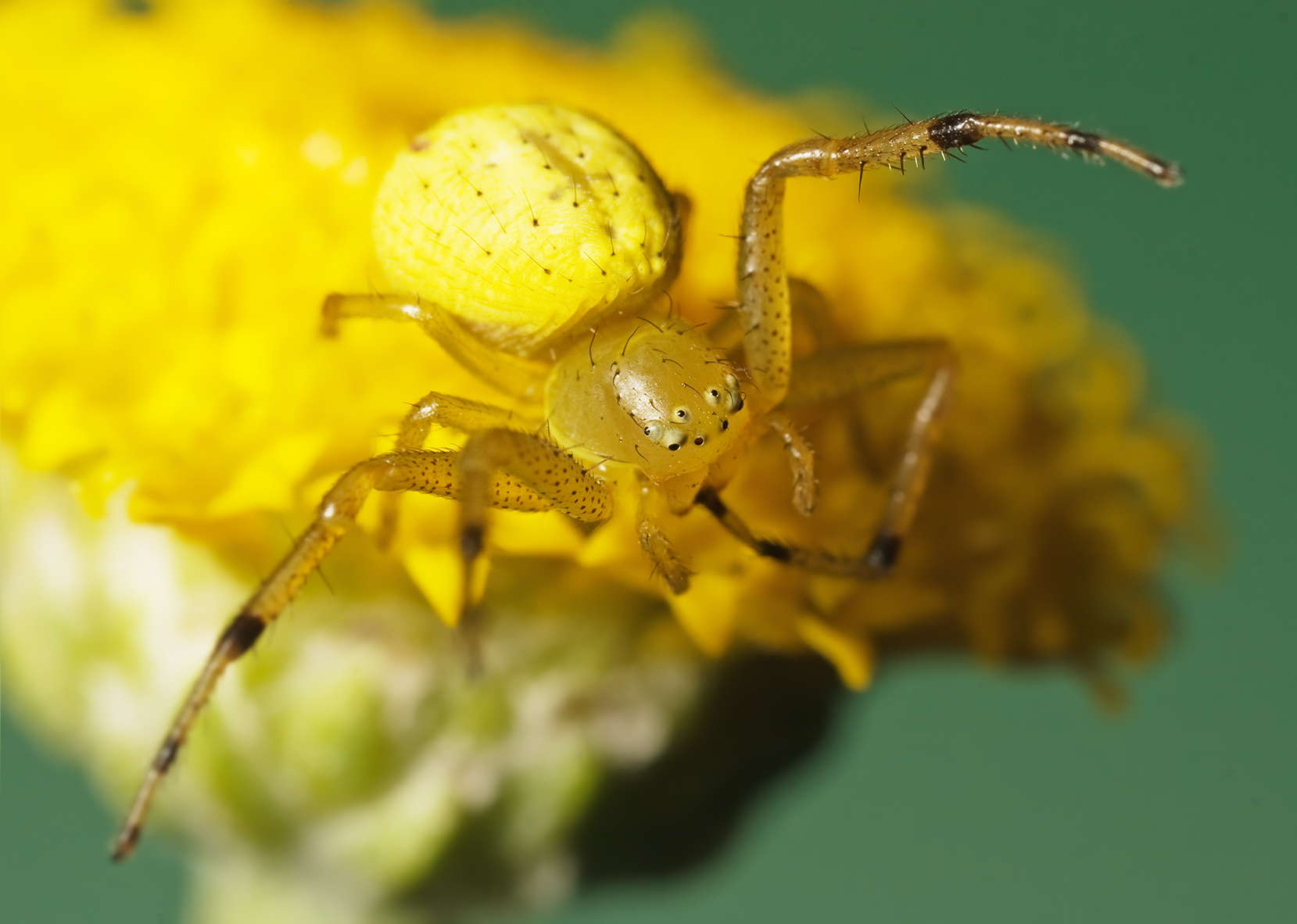 Austin's Ferry, Tasmania, Australia